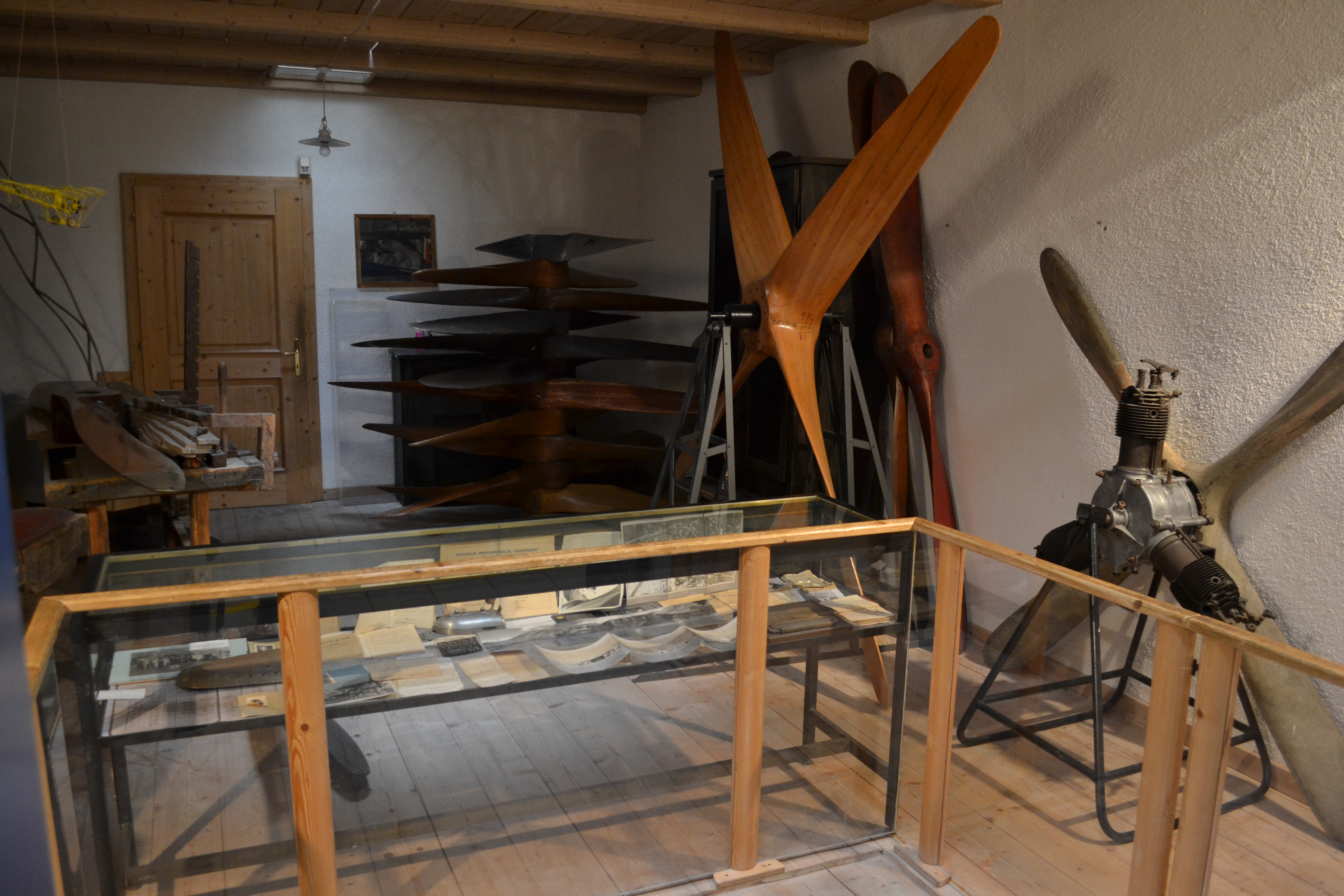 The reconstruction of a 1920s airscrew factory in the Museo dell'aeronautica Gianni Caproni in Trento, Italy.